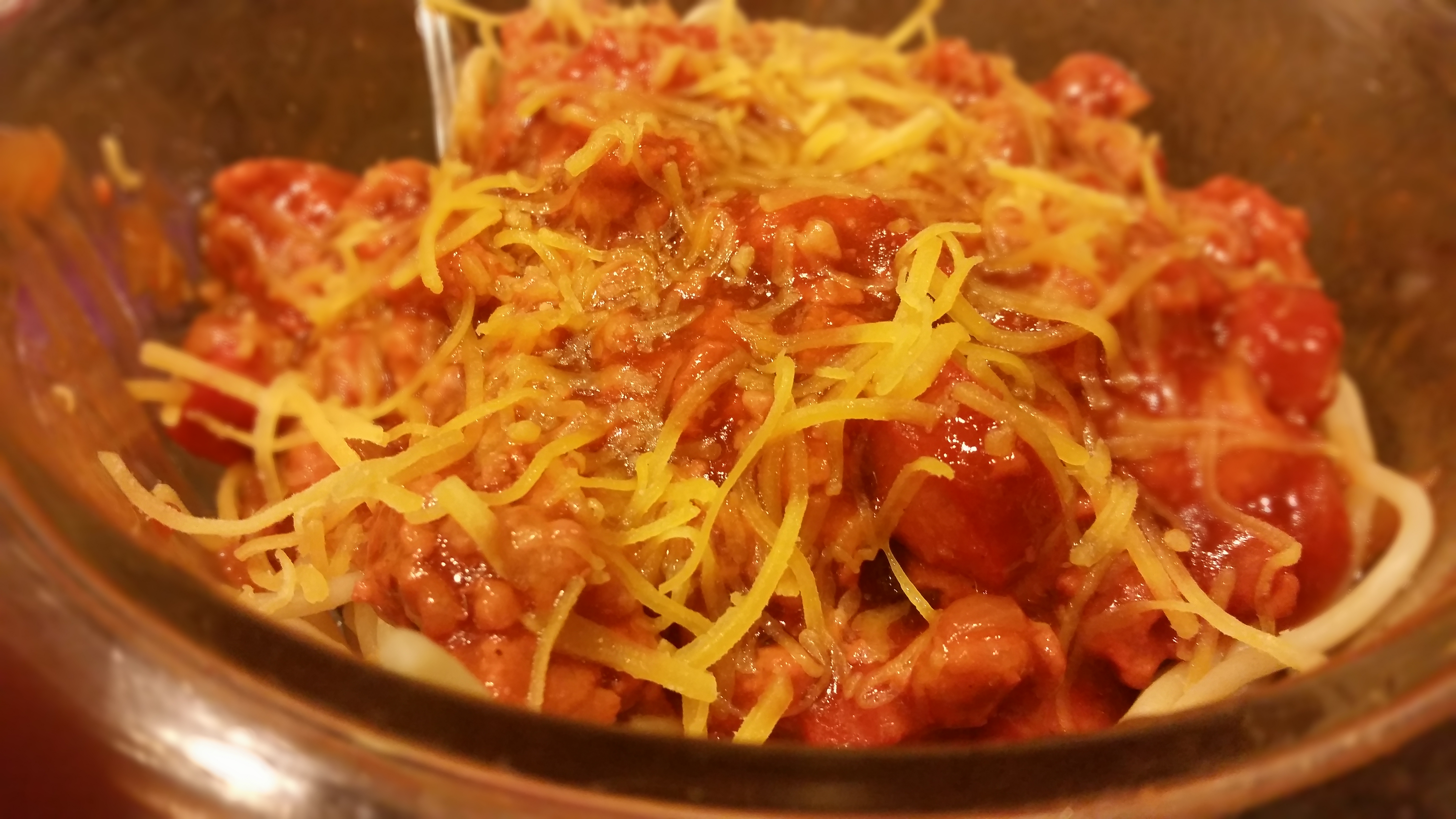 Filipino style spaghetti made in Chula Vista